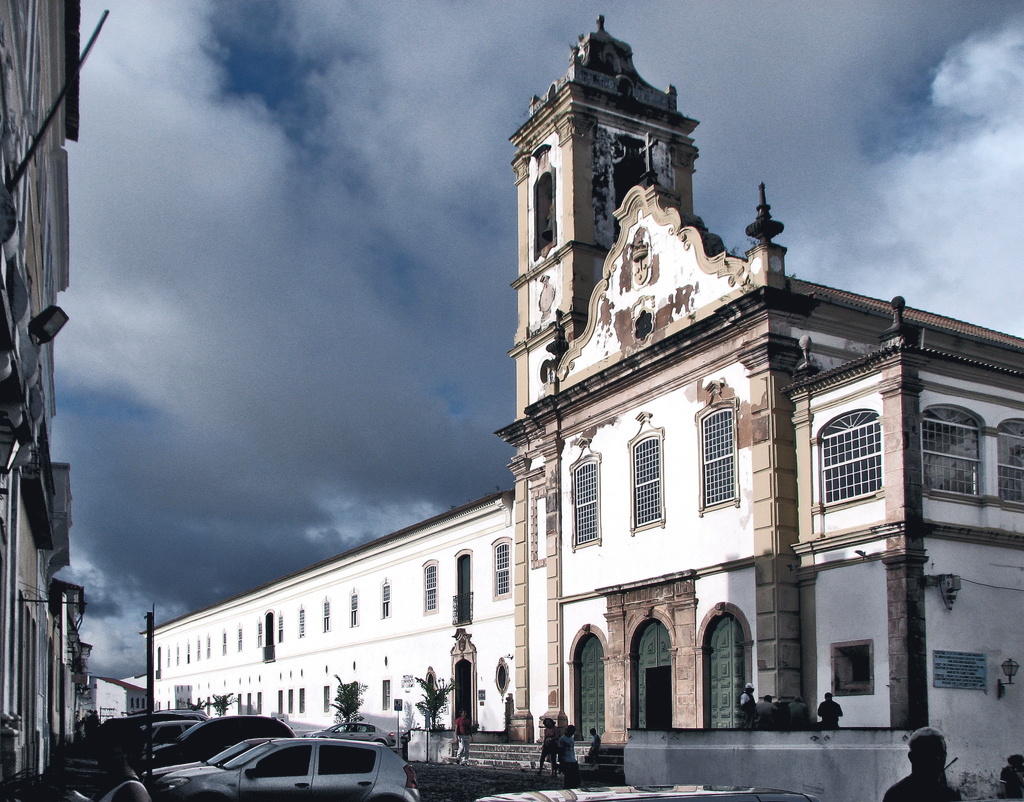 Carmo Church and Convent in Salvador, Bahia, Brazil